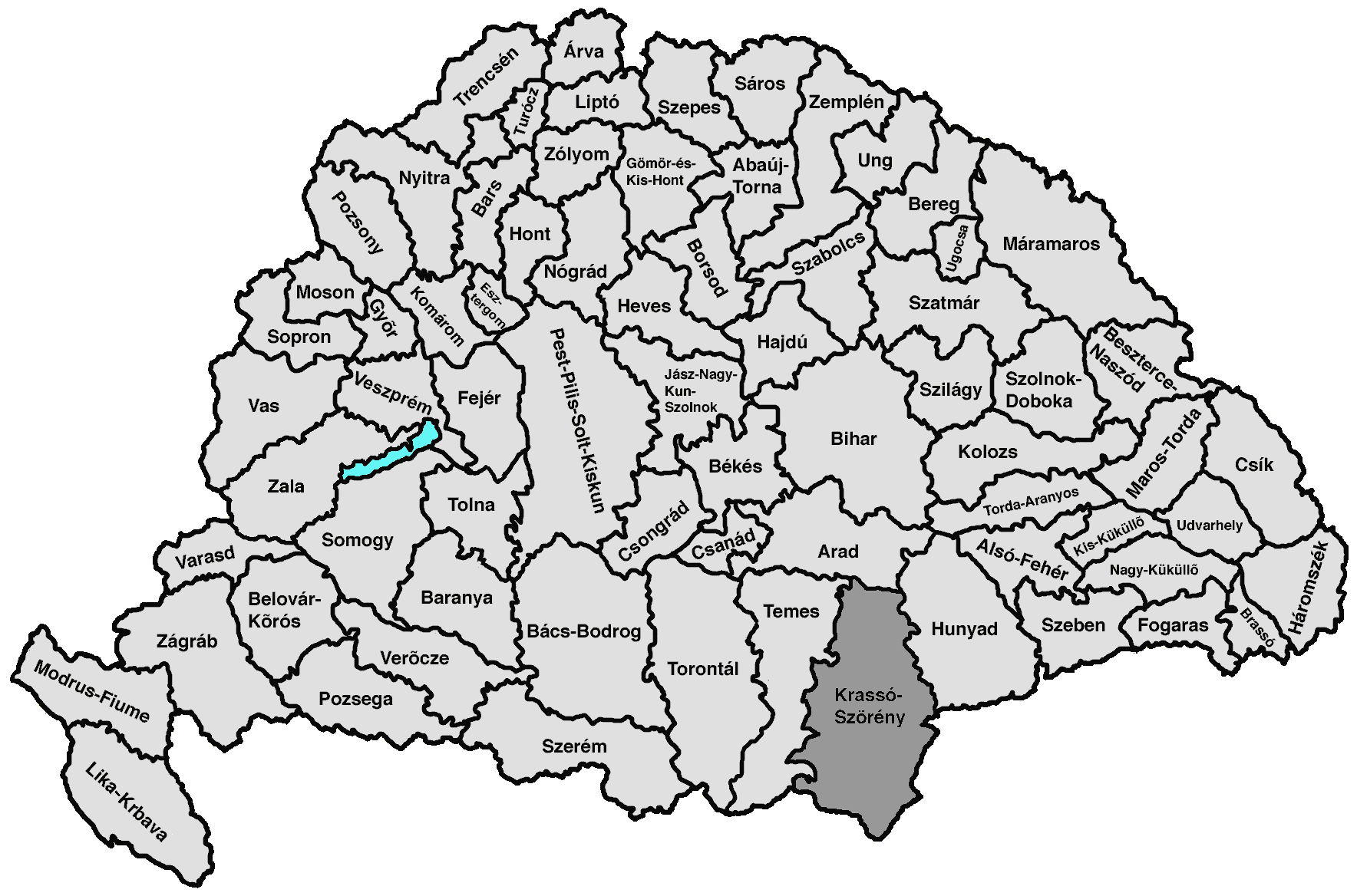 own edit of Image:Zala.png